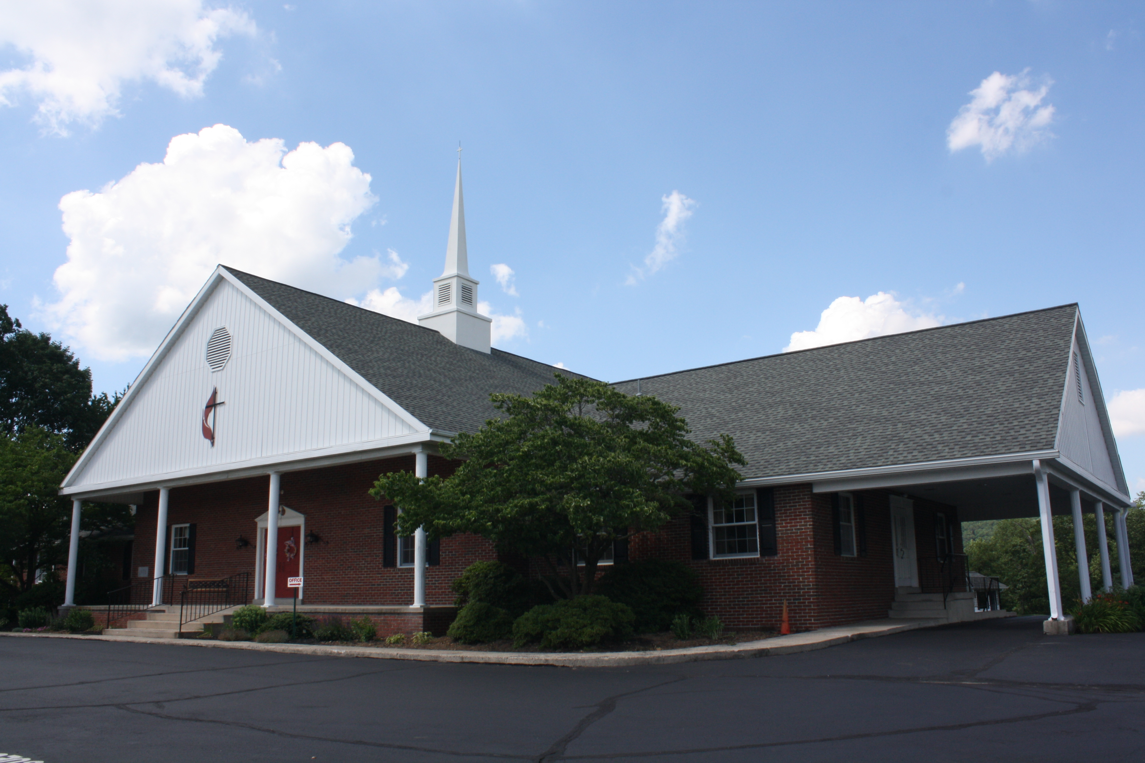 St. Andrew United Methodist Church - 611 Swamp Creek Rd., New Berlinville, Pennsylvania.